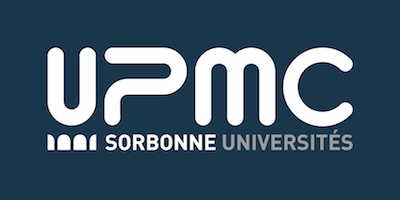 Logo: UPMC Sorbonne